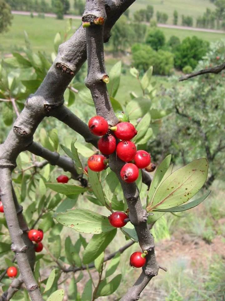 Tapinanthus oleifolius (J.C.Wendl.) Danser - Pretoria, South Africa